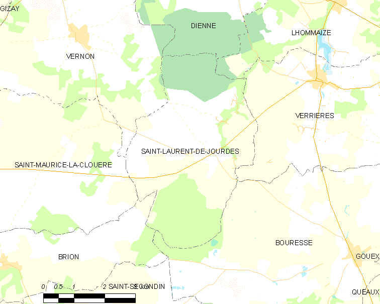 Map of French municipality Saint-Laurent-de-Jourdes